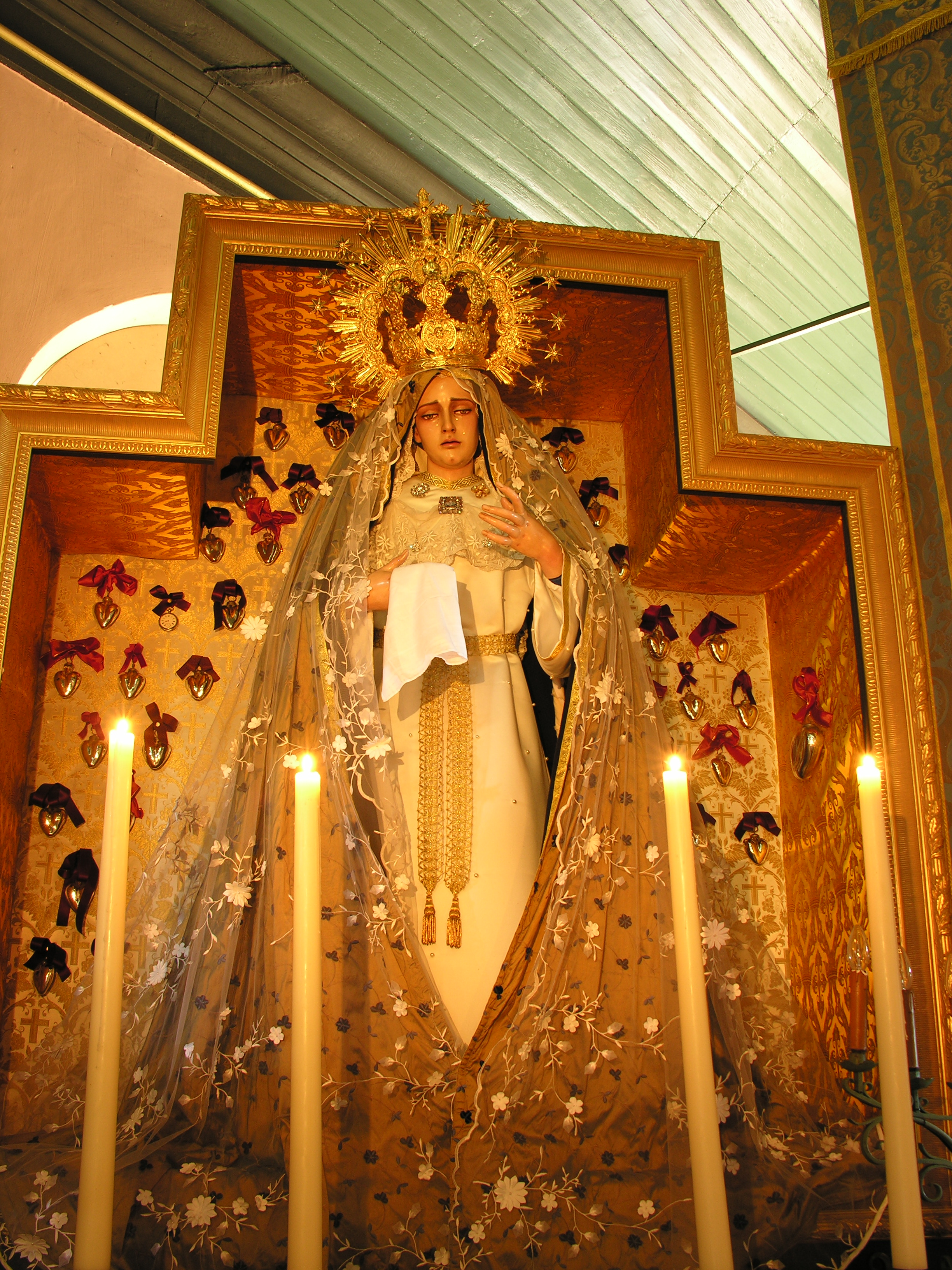 Our Lady of Warfhuizen dressed for Christmas